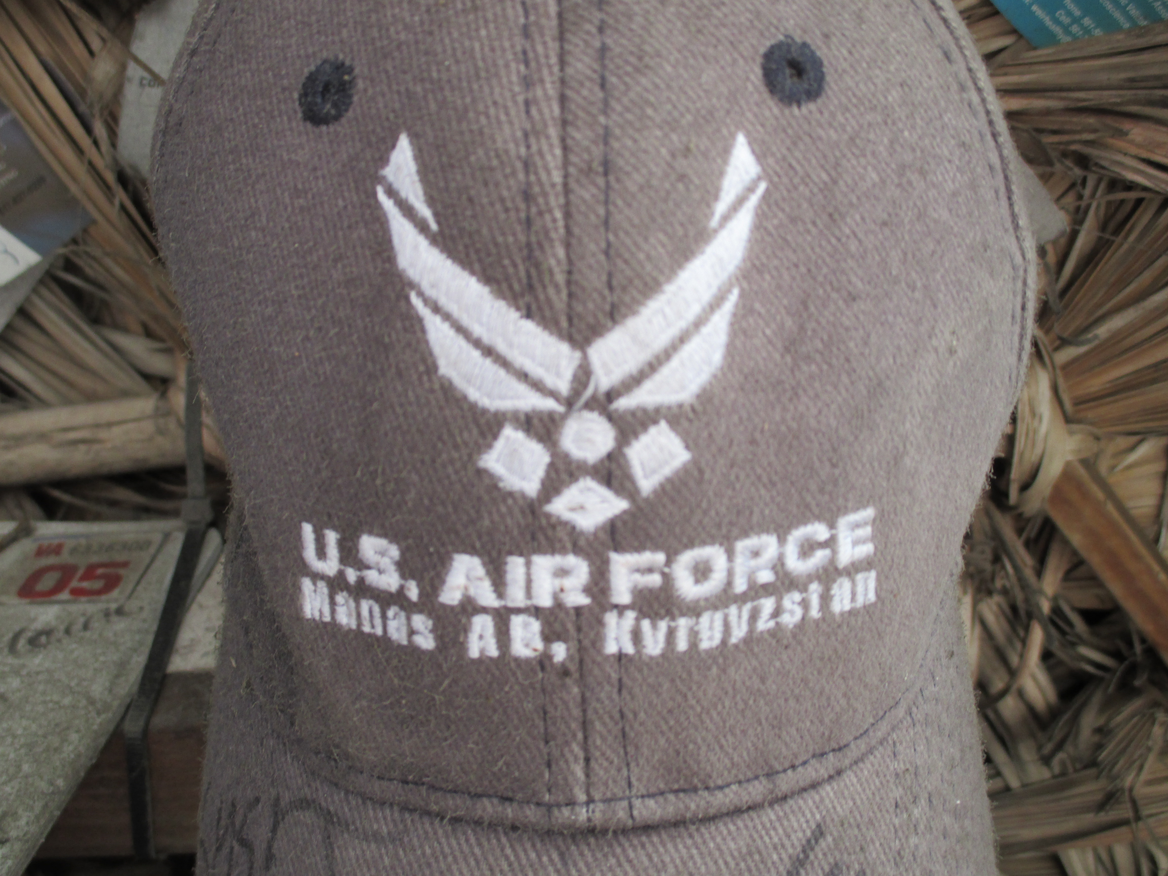 Foxy's Bar, decoration: cap of U.S. Air Force — Manas Air Base, Kyrgyzstan (now Transit Center at Manas)